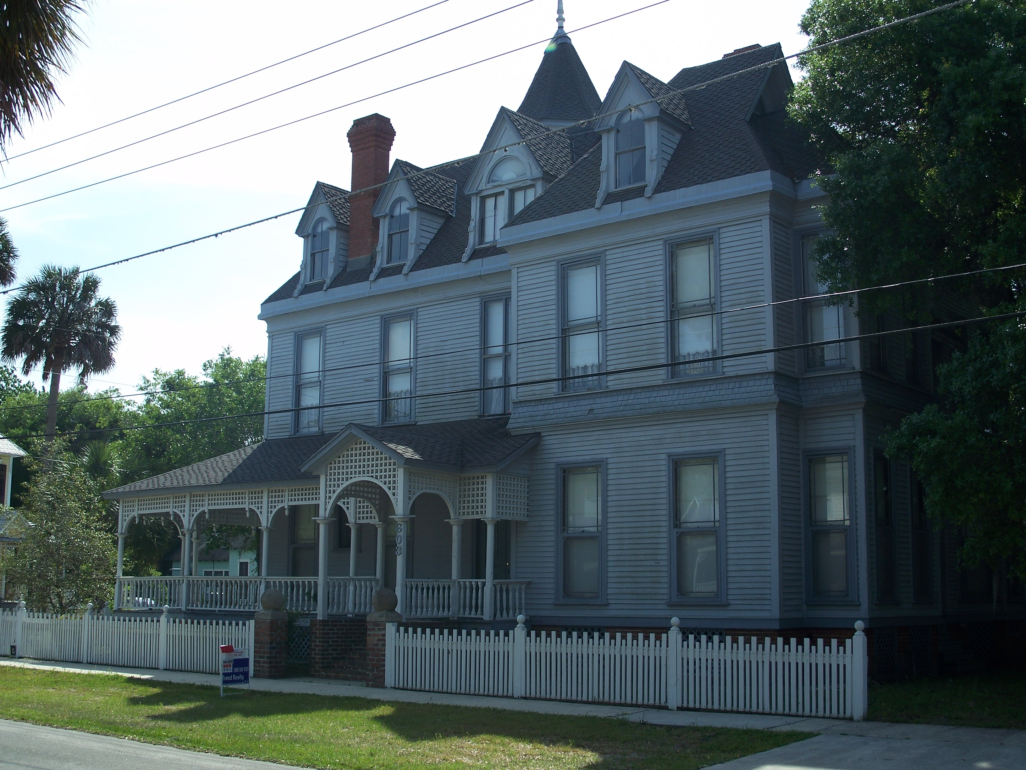 Palatka, Florida: Palatka South Historic District: Conant House, built in 1886